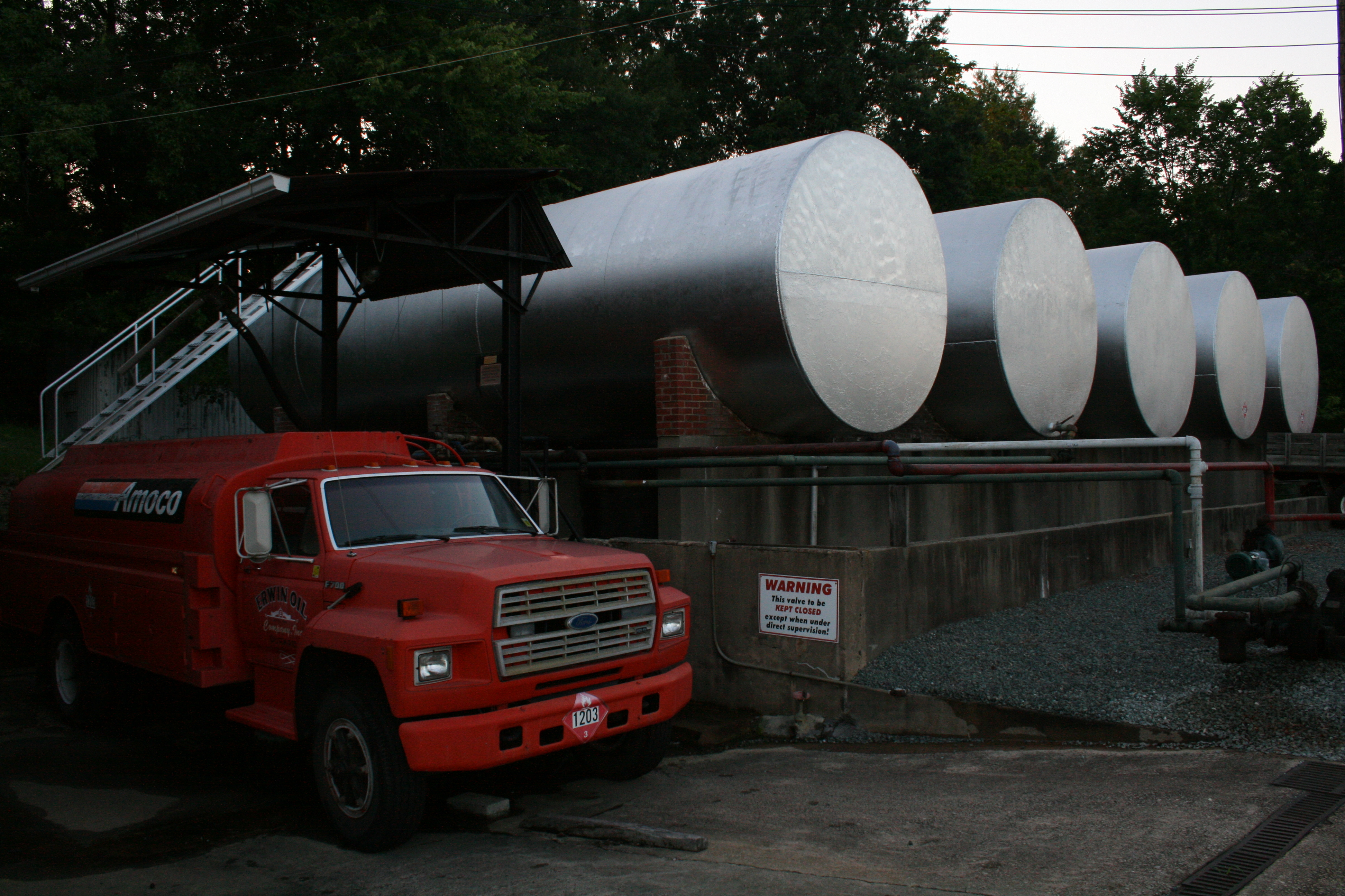 Erwin Oil Co. tanks on Washington St in Durham, North Carolina.